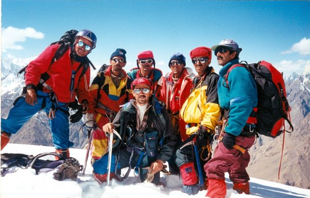 Shimshalis are to Pakistan as Sherpas are to Nepal. In this picture Shimshali mountaineers are posing at the top of an unclimbed peak called Yeer Gatak ( Sunrise) Peak in Shimshal after scaling it for the first time.